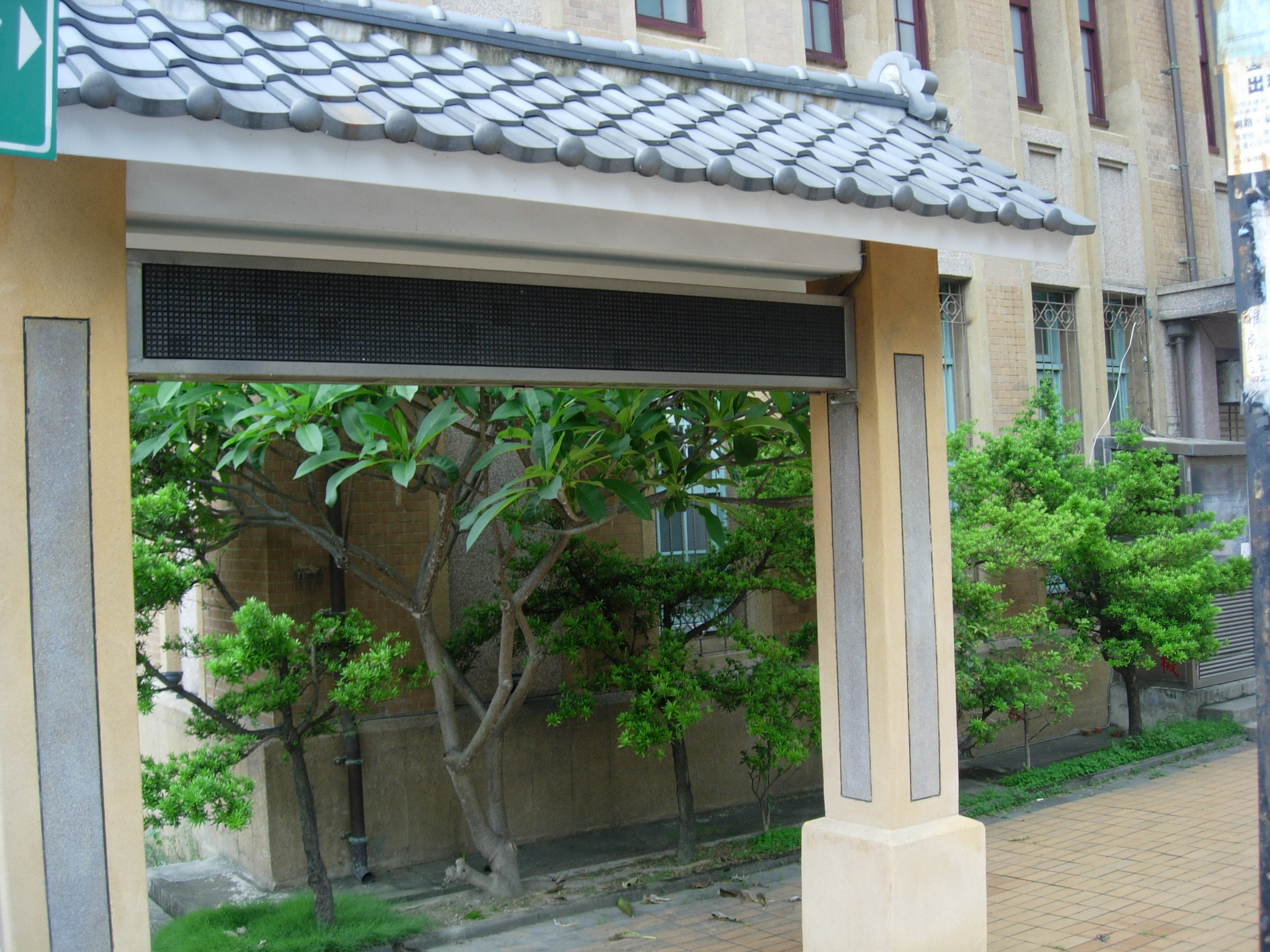 Nantou City Farmer's Association Side